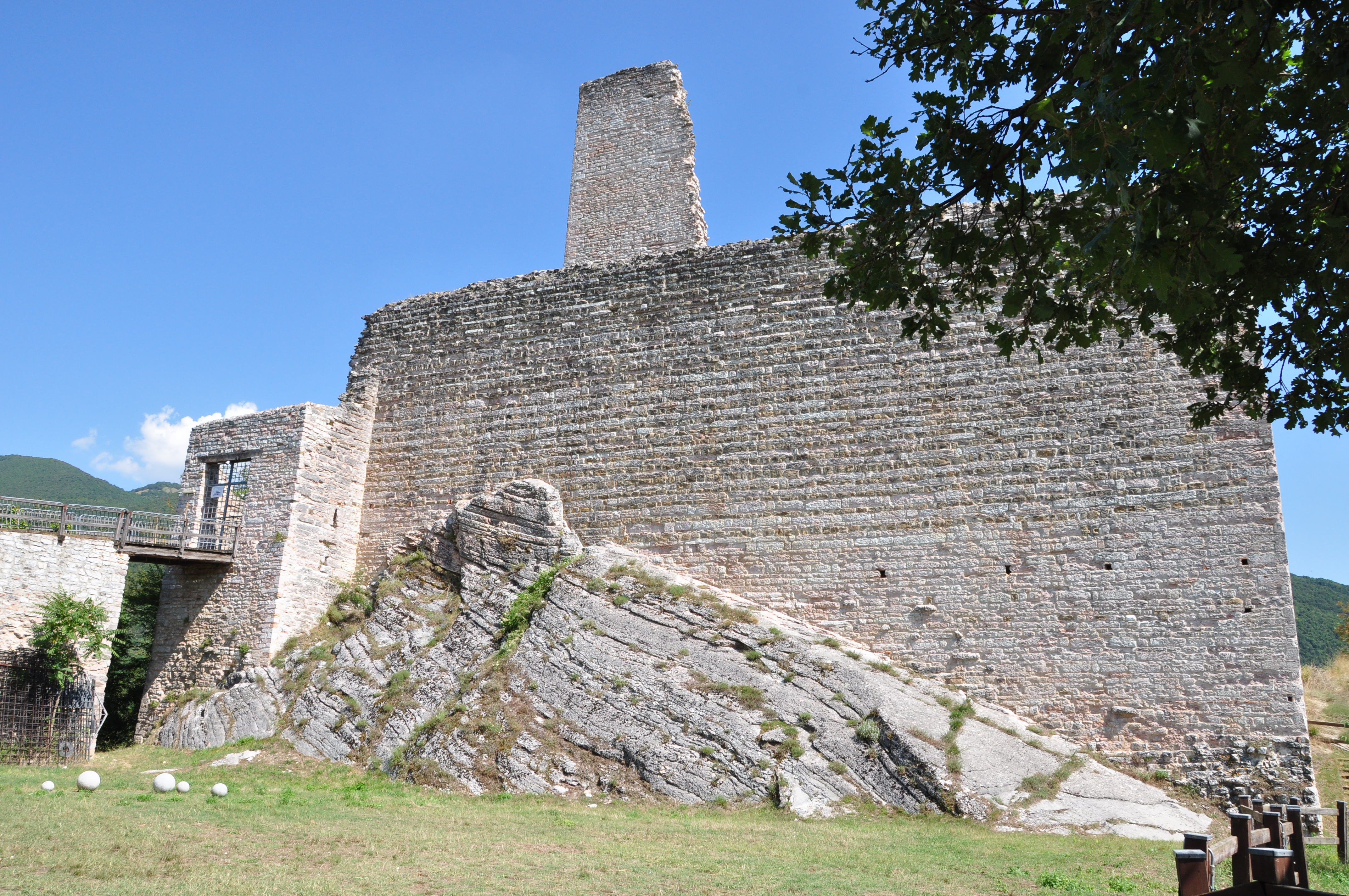 View of Rocca Varano in Camerino